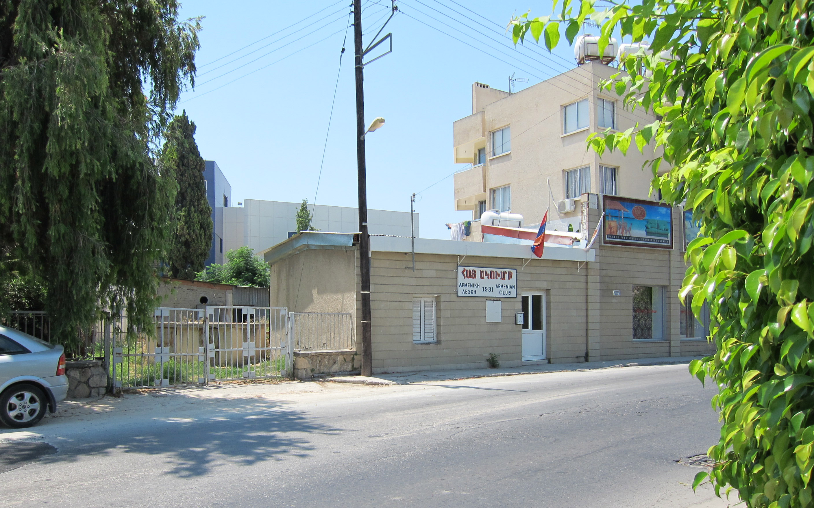 Larnaca's Armenian Club.